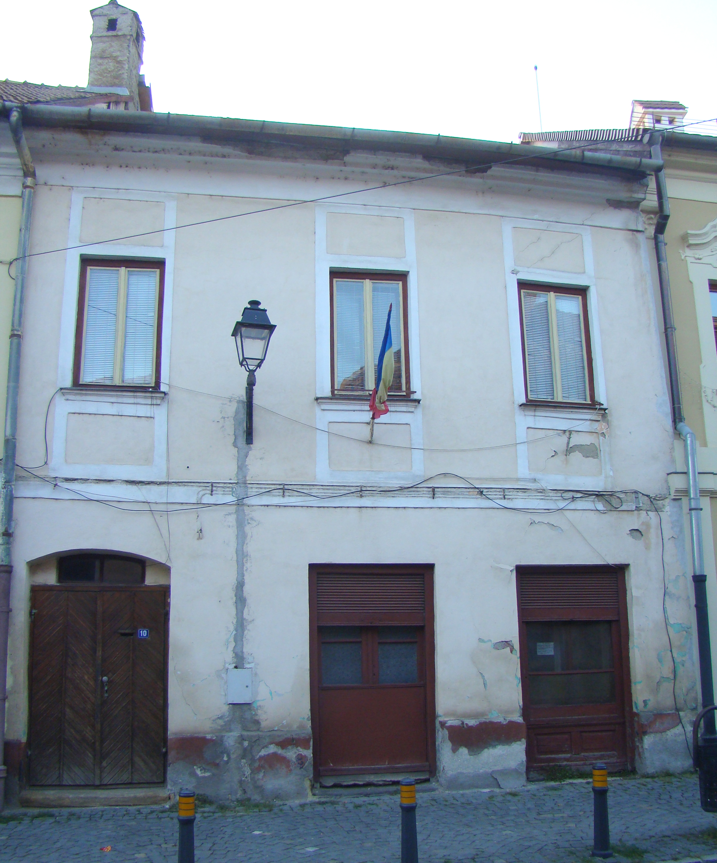 House, historic monument, in Bistrița, Nicolae Titulescu street 10